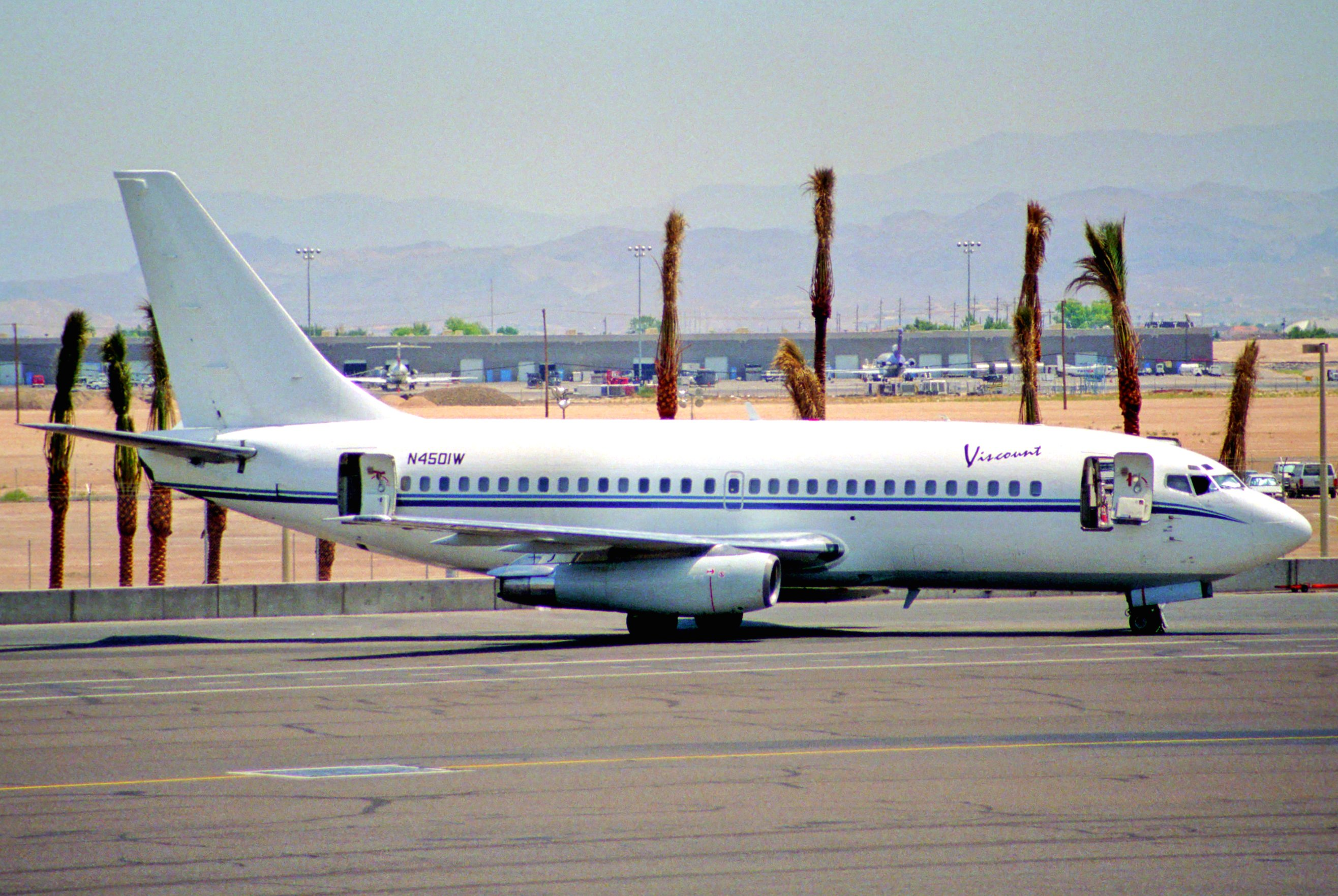 This Boeing 737 is the earliest model number I came across so far: 19598/ 33 (and highly unlikely that this is going to change). N4501W is a Boeing 737-247 and first flew on May 31, 1968. It was Western Airlines' first 737. Later operators of the Boeing were AirCal, American Airlines, Aviateca and Air South - all as N4501W. Its life after Viscount looked as follows: 18/07/1995 Viscount Air Service N903RC 13/06/1996 Sierra Pacific N903RC 01/05/1997 Air Midi Bigorre N903RC 19/08/1997 Vistajet C-GVJC 21/03/1999 LorAir C-GVJC